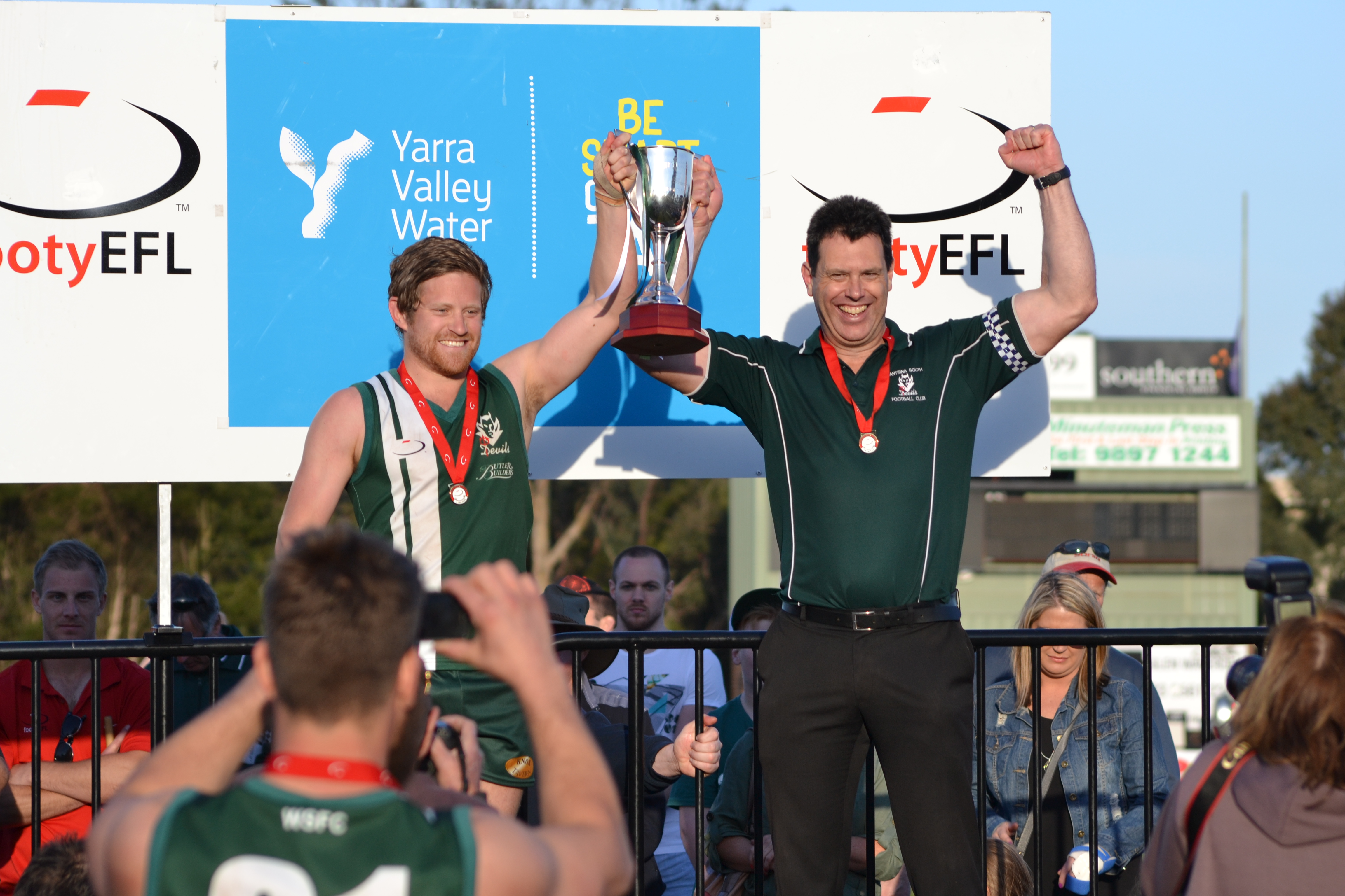 Captain Andrew Teakel & Coach Matthew Clark celebrate 2014 Premiership